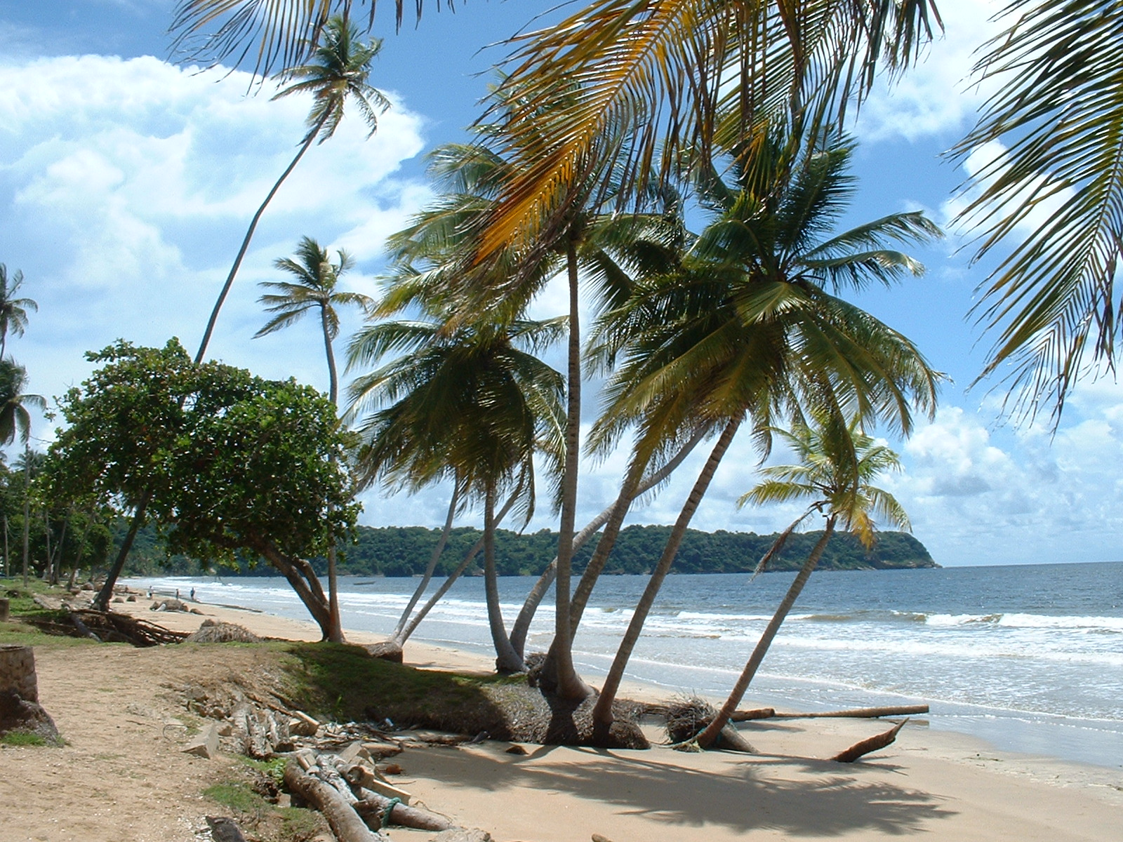 Mayaro Beach - Swaying Coconut Palms